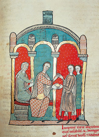 Raimund Berengar I. (Barcelona)